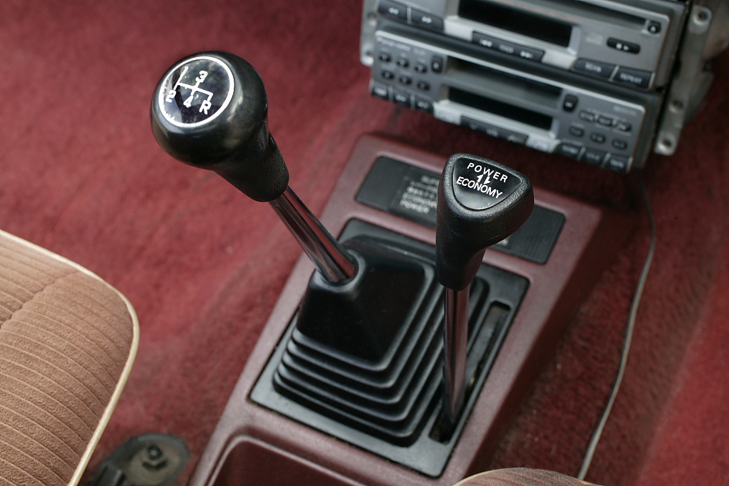 Supershift of Mitsubishi Cordia